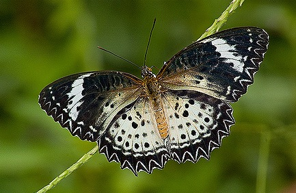 by Dhaval Momaya during August 2006 at Jairampur, Arunachal Pradesh.